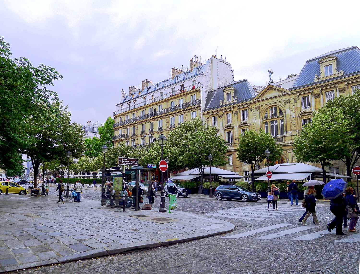 Saint-Germain-des-près place - Paris